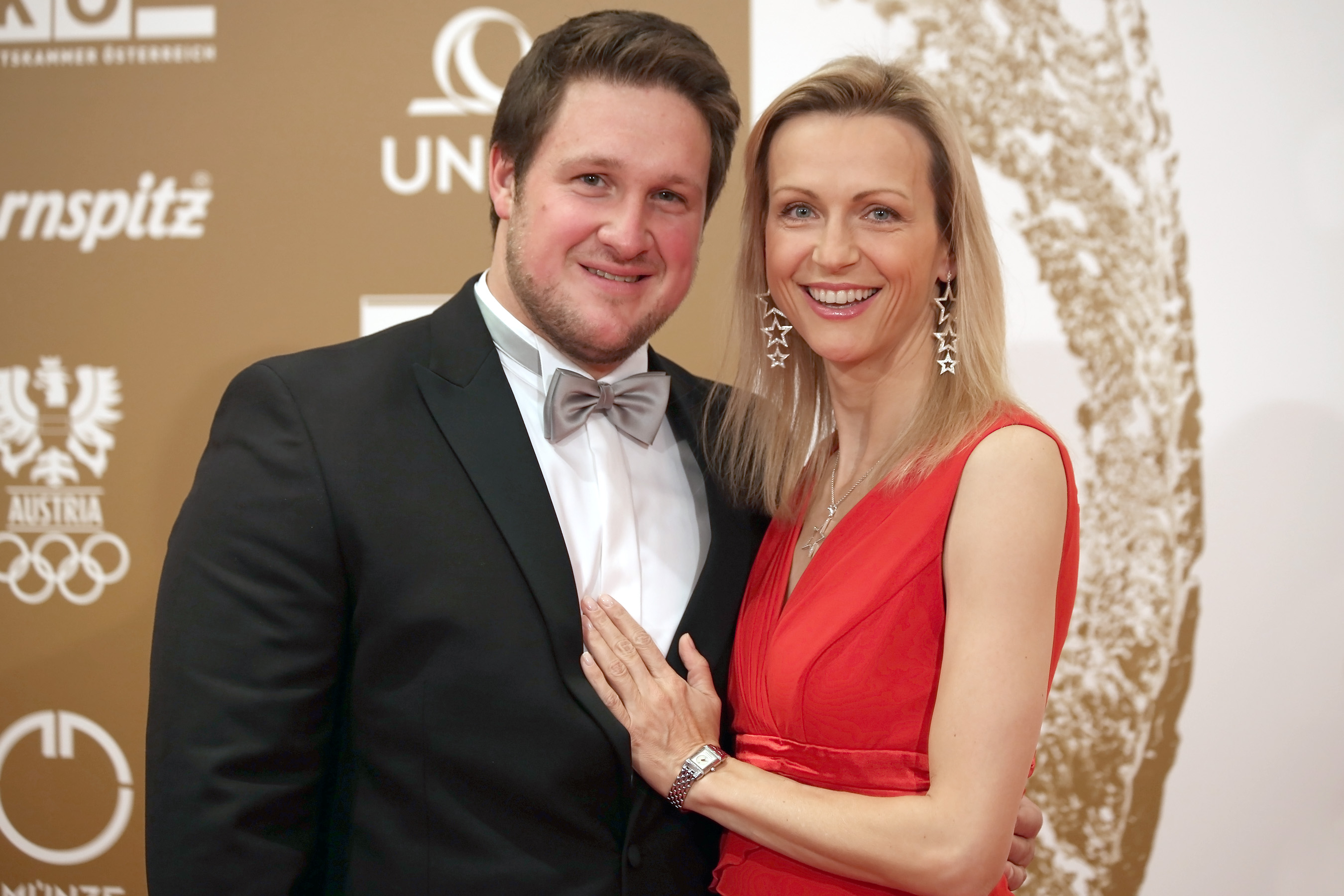 Inge and Matthias Steiner at the award show for the Austrian Sportspersonalities of the year 2013 at Austria Center Vienna (Vienna, Austria).